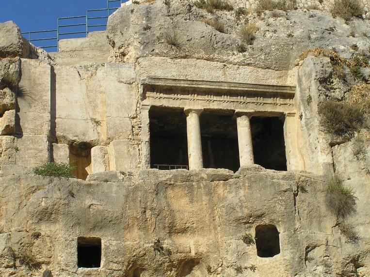 Tomb and of Hezir family, on Mt. Olives slopes, Jerusalem Photographed by Eman on June 2005 Bnei Hazir tomb